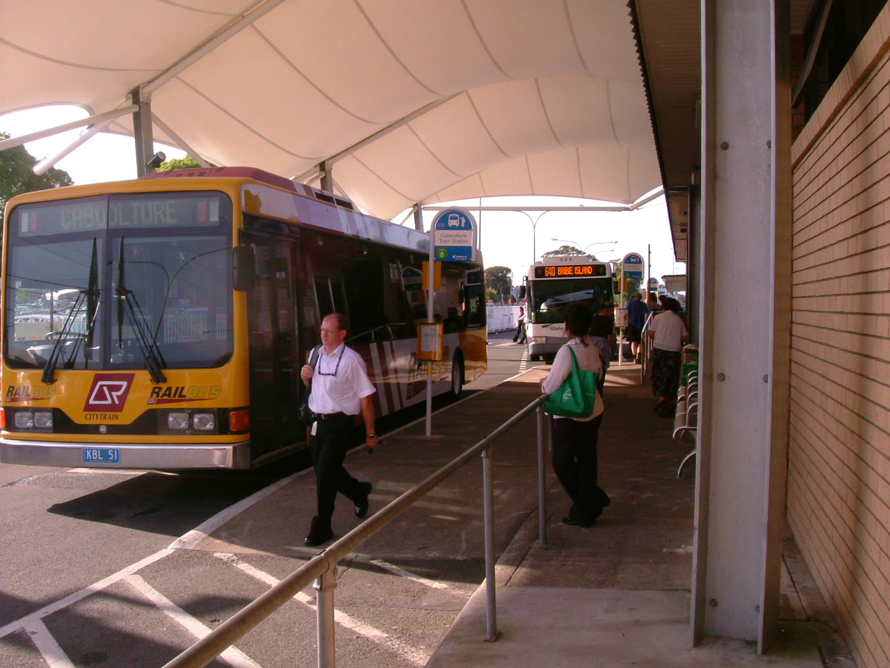 Custom Coaches bodied Mercedes-Benz O 405 NH (KBL 51, built 2000). Caboolture railway station, Queensland, Australia.